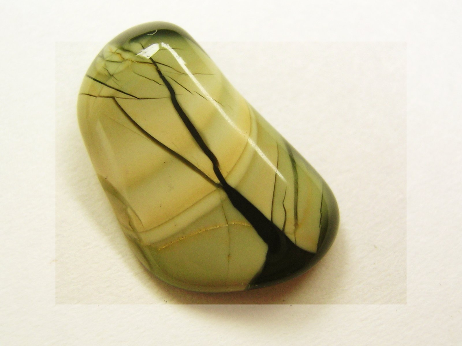 Chyta - varity of Serpentine (Leaf Serpentine)